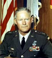 General Hugh Pate Harris from [1] Official U.S. Army portrait photo, not eligible for copyright